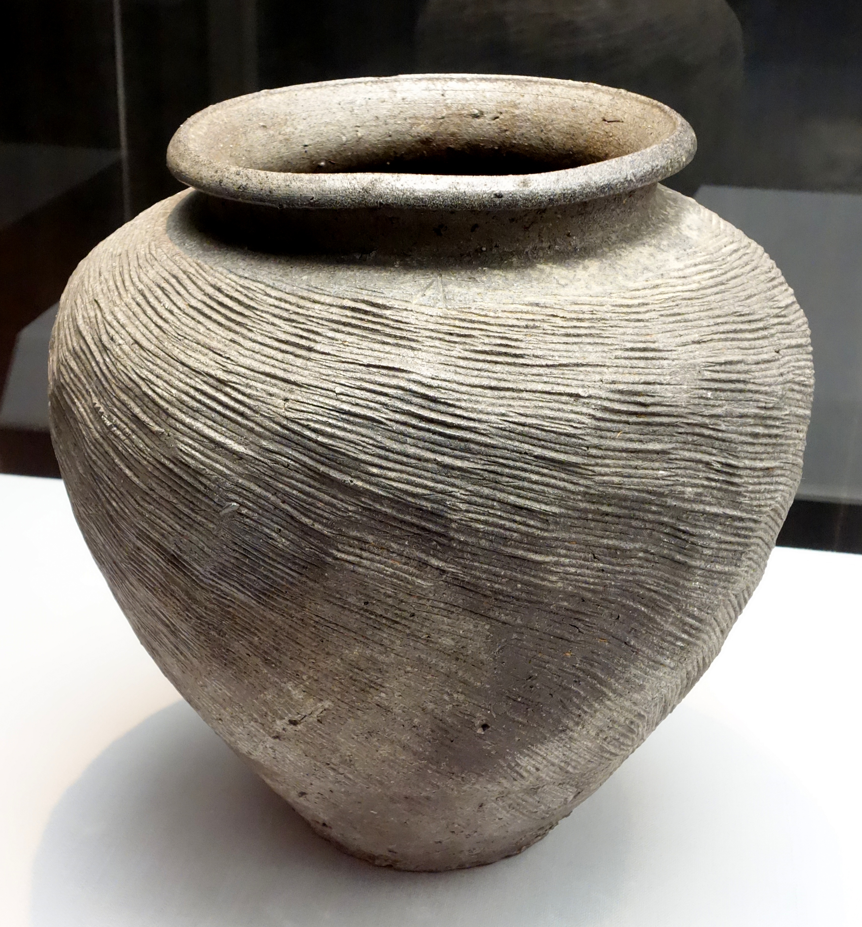 Exhibit in the Tokyo National Museum, Tokyo, Japan. This artwork is old enough so that it is in the public domain.